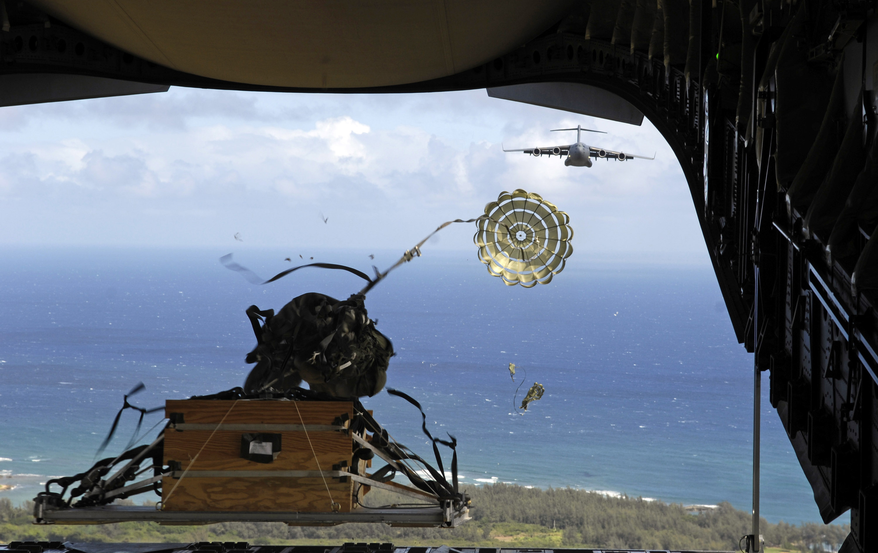 Airdrop from a McDonnell Douglas C-17 Globemaster III.